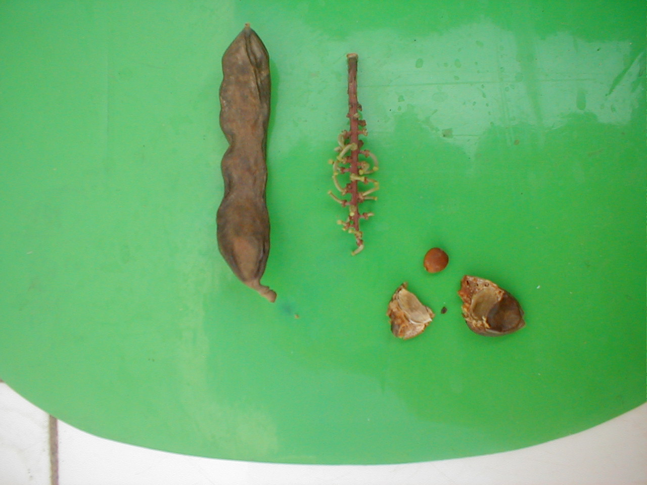 seeds and "old flowers" of Bot carob tree (Ceratonia silica) Walon: maweure hotche (do moes d' may), tote djonnès hotches (e moes d' setimbe) et grinne di caroube (portrait saetchî pa L. Mahin).